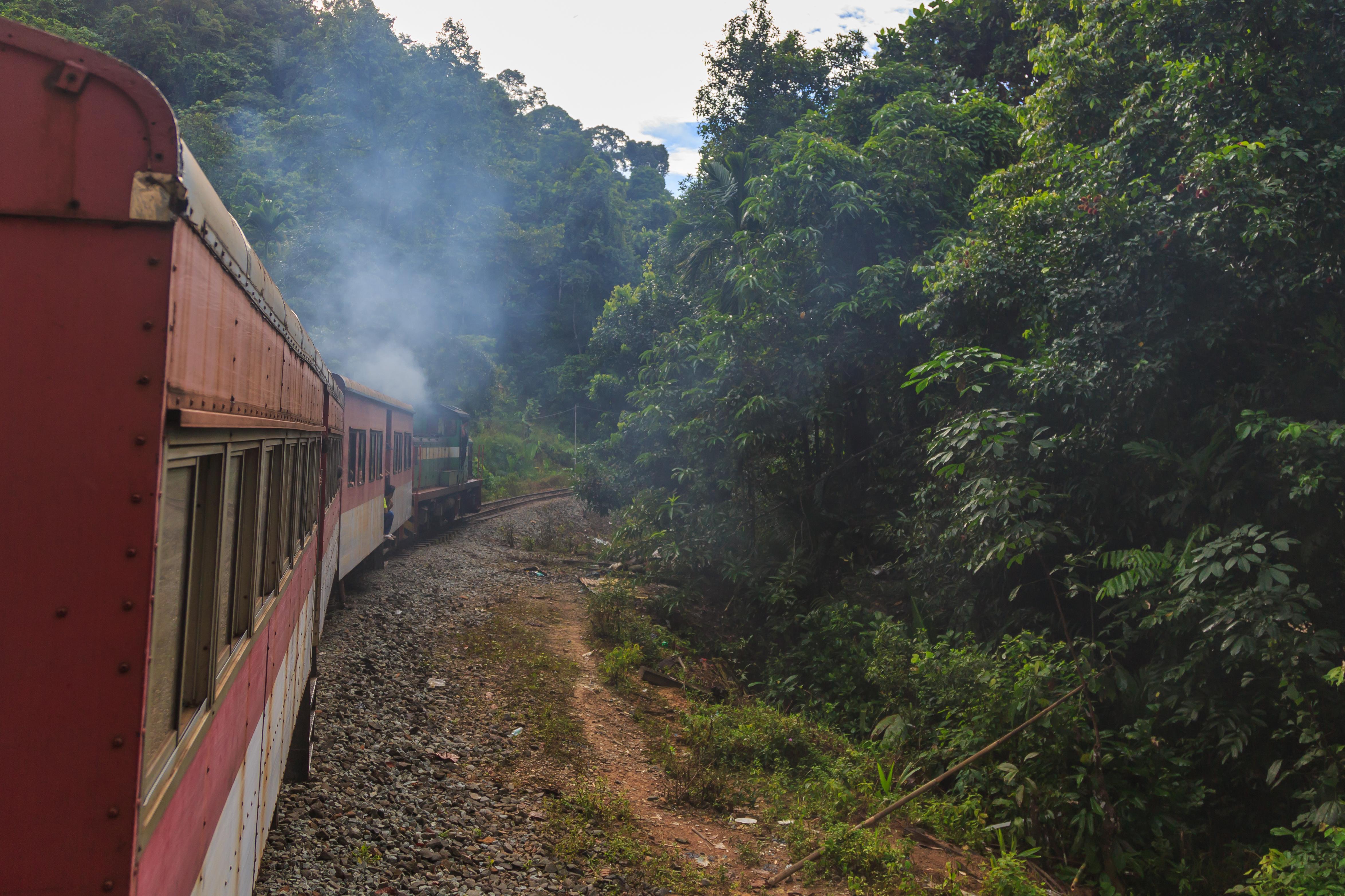 Padas River Valley, Sabah, Malaysia: The morning train to Tenom on it's way in the Padas River Valley.